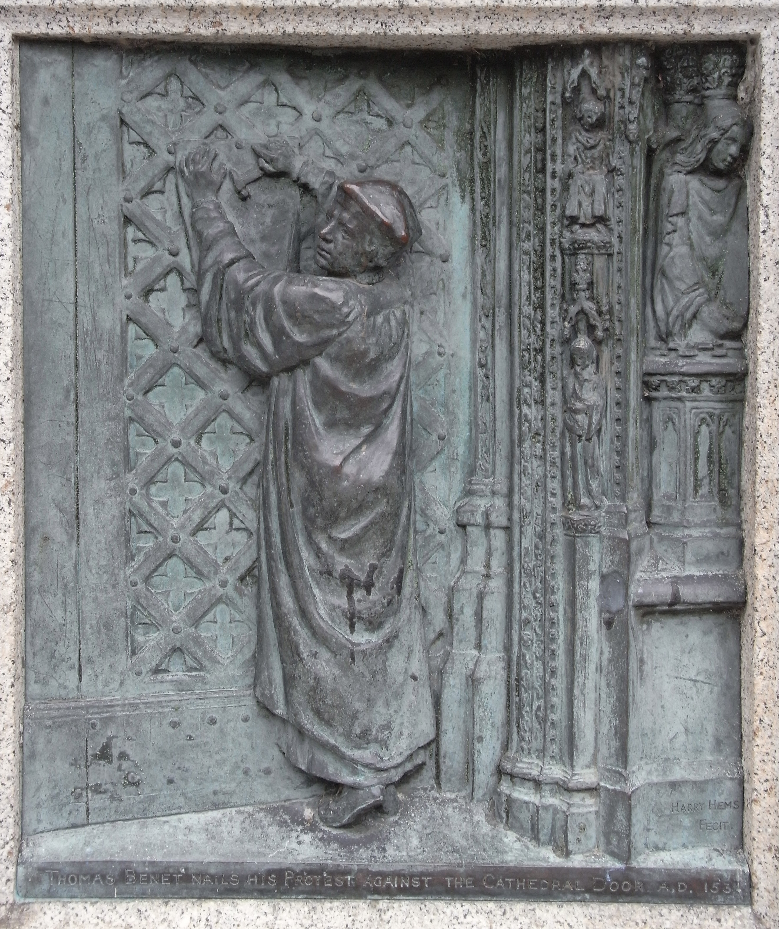 1909 bronze relief panel by Harry Hems on the Protestant Martyrs' Monument, Denmark Road, Exeter, Devon. It represents the protestant martyr Thomas Benet fixing scrolls to the door of Exeter Cathedral, for which he was burnt to death in 1531 at Livery Dole, Exeter.